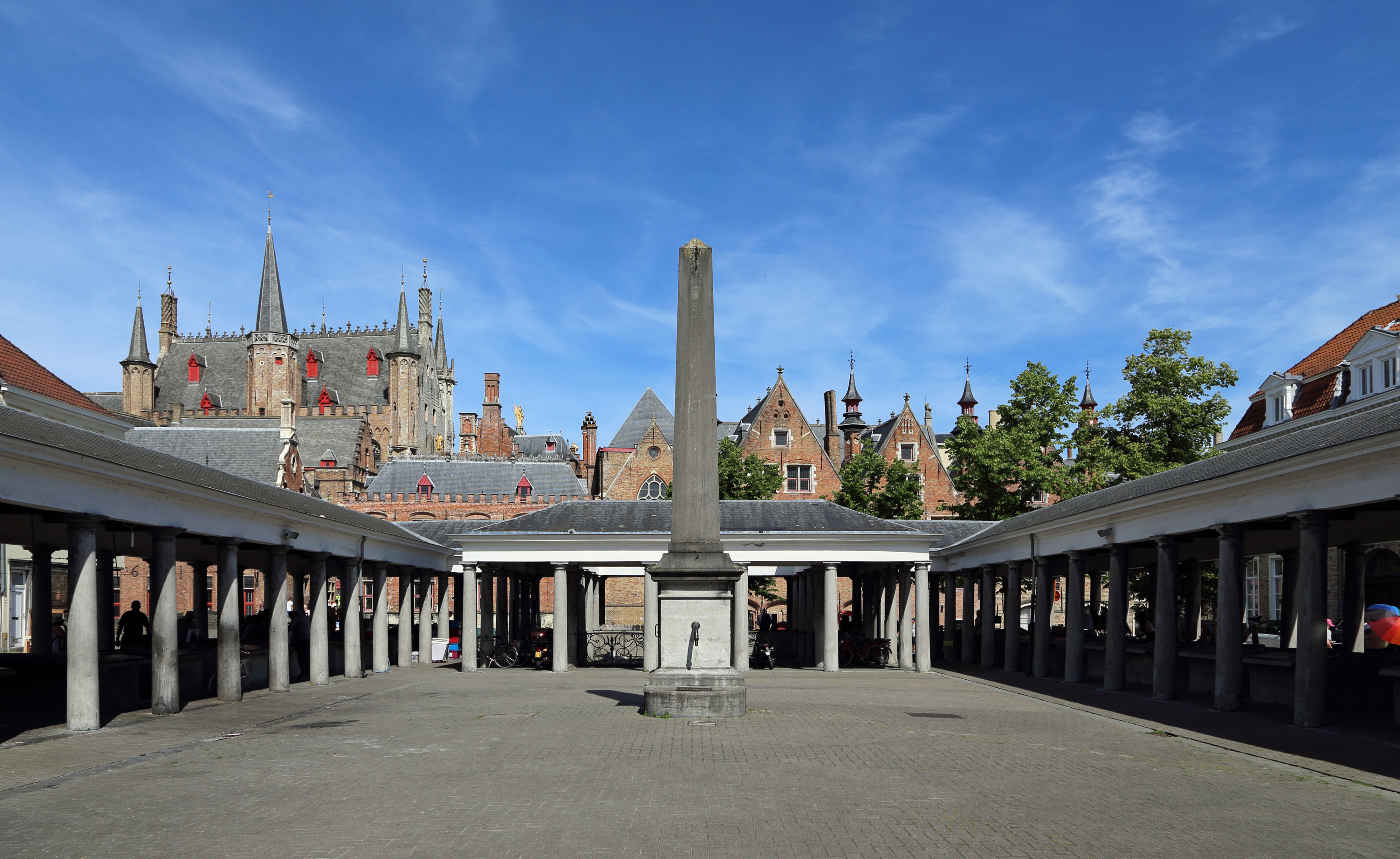 Bruges (Belgium): Vismarkt (Fish Market)